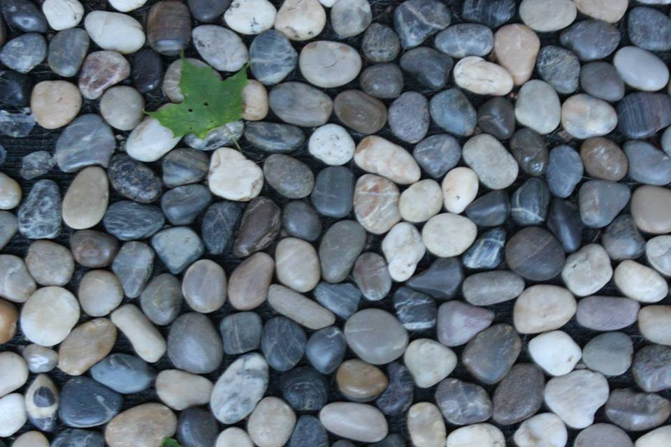 Pebble Door Mat